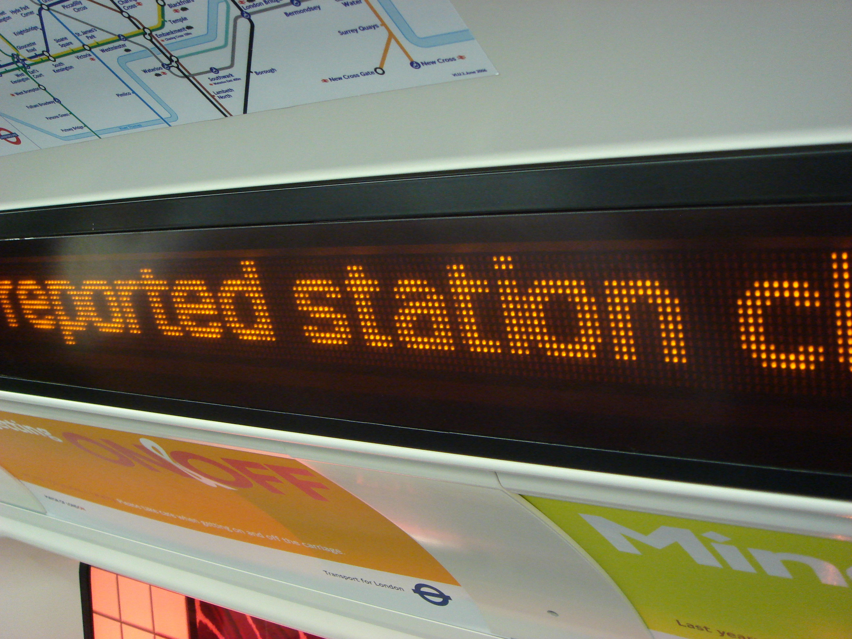 Interior of LU 2009 Stock